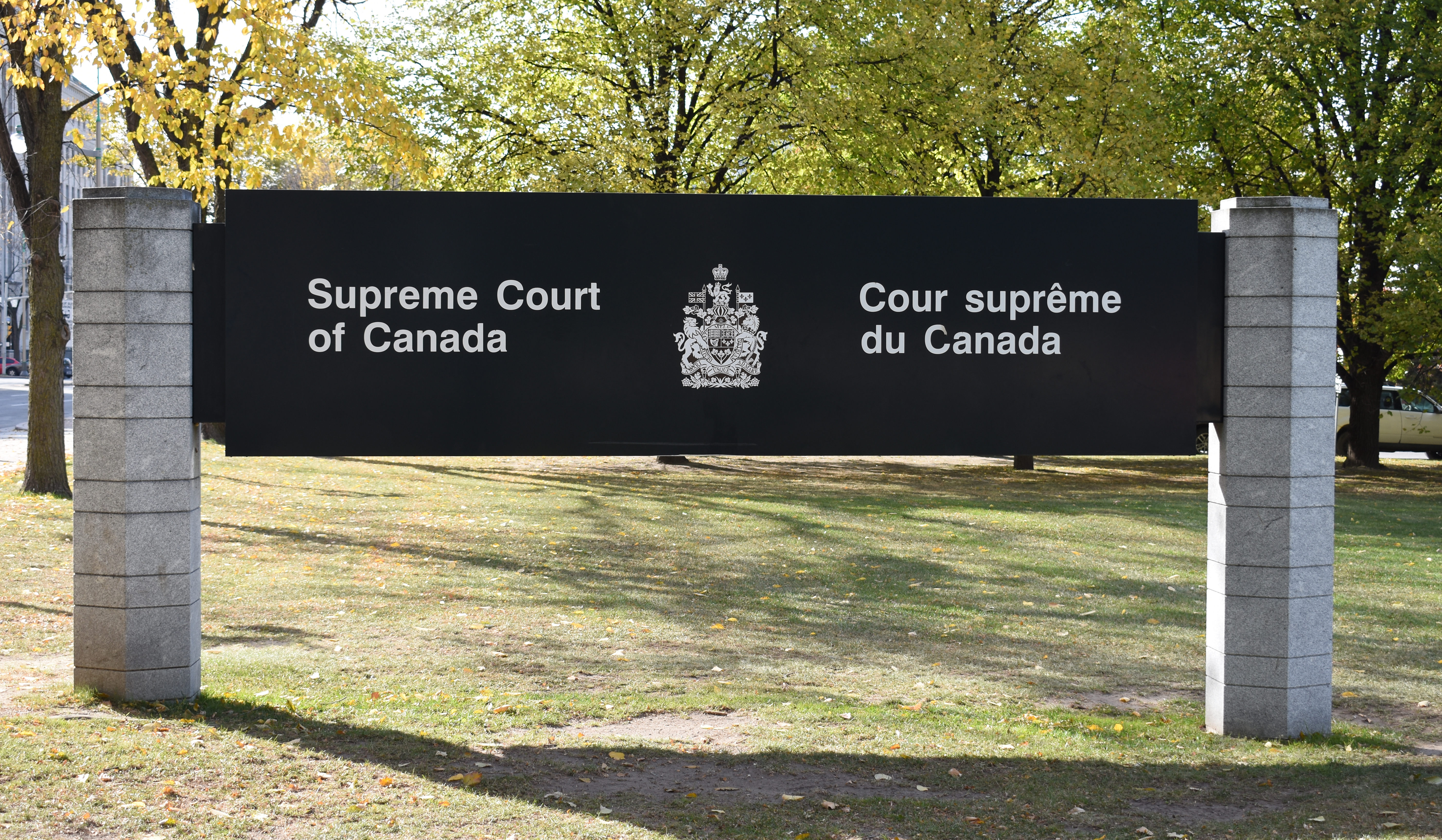 Supreme Court of Canada sign